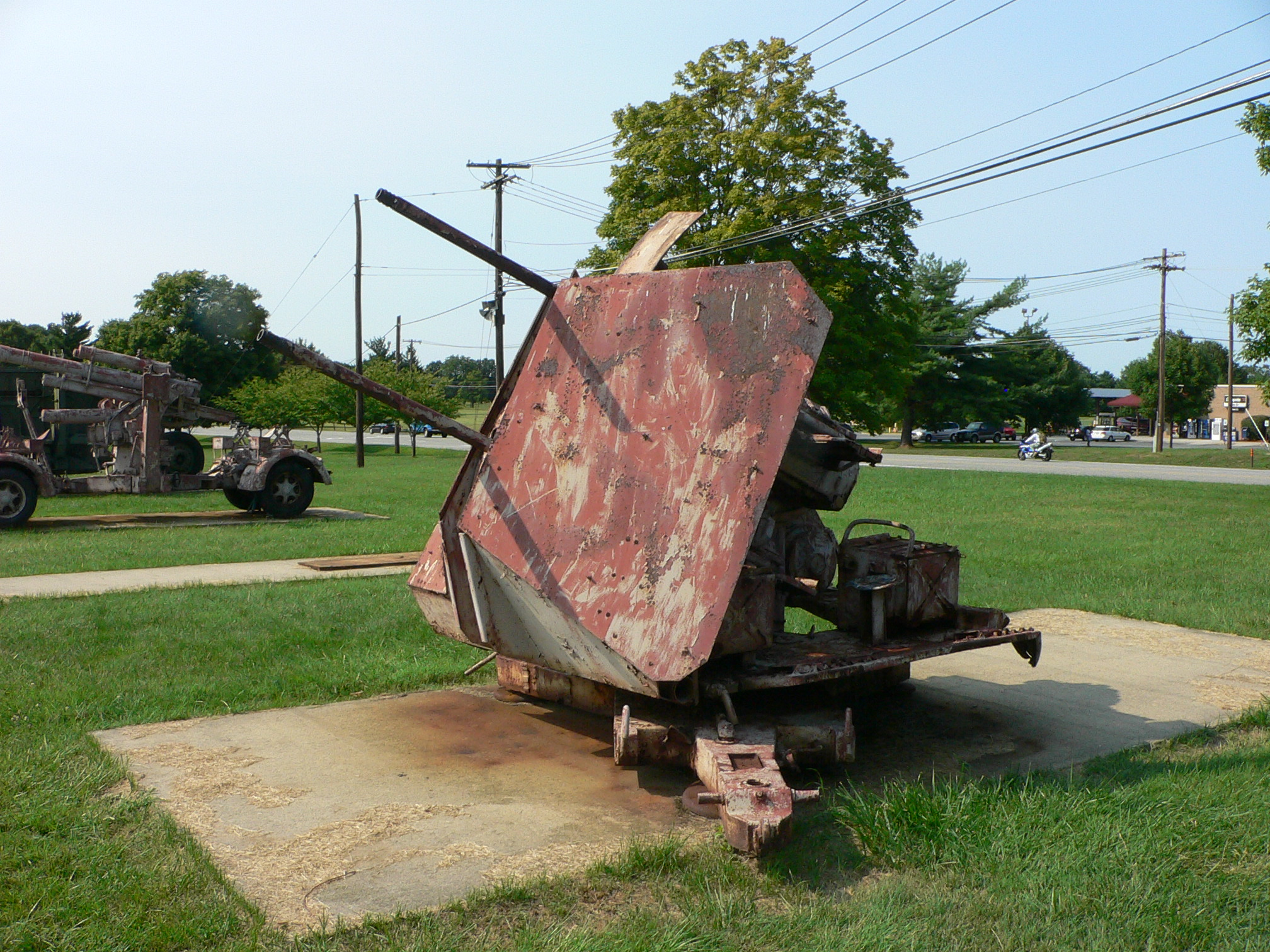 Picture taken by myself, Mark Pellegrini, at the United States Army Ordnance Museum (Aberdeen Proving Ground, MD) on August 14, 2007.